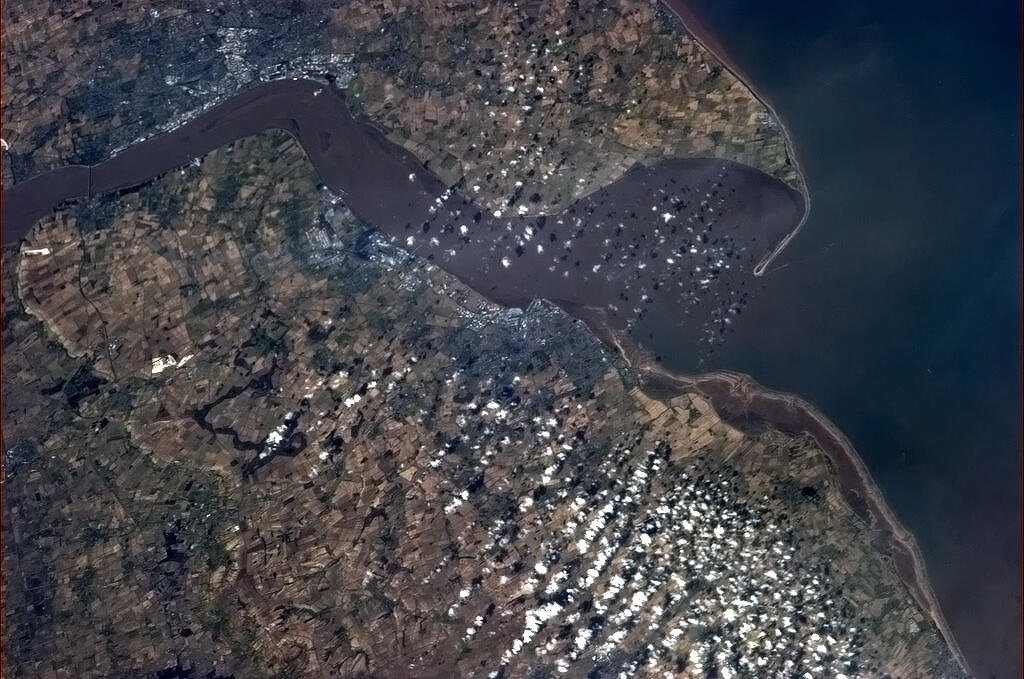 Kingston upon Hull and the Humber Estuary, from the International Space Station.